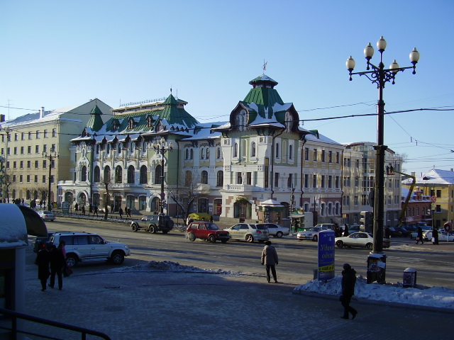 Khabarovsk, Russia Confer as well